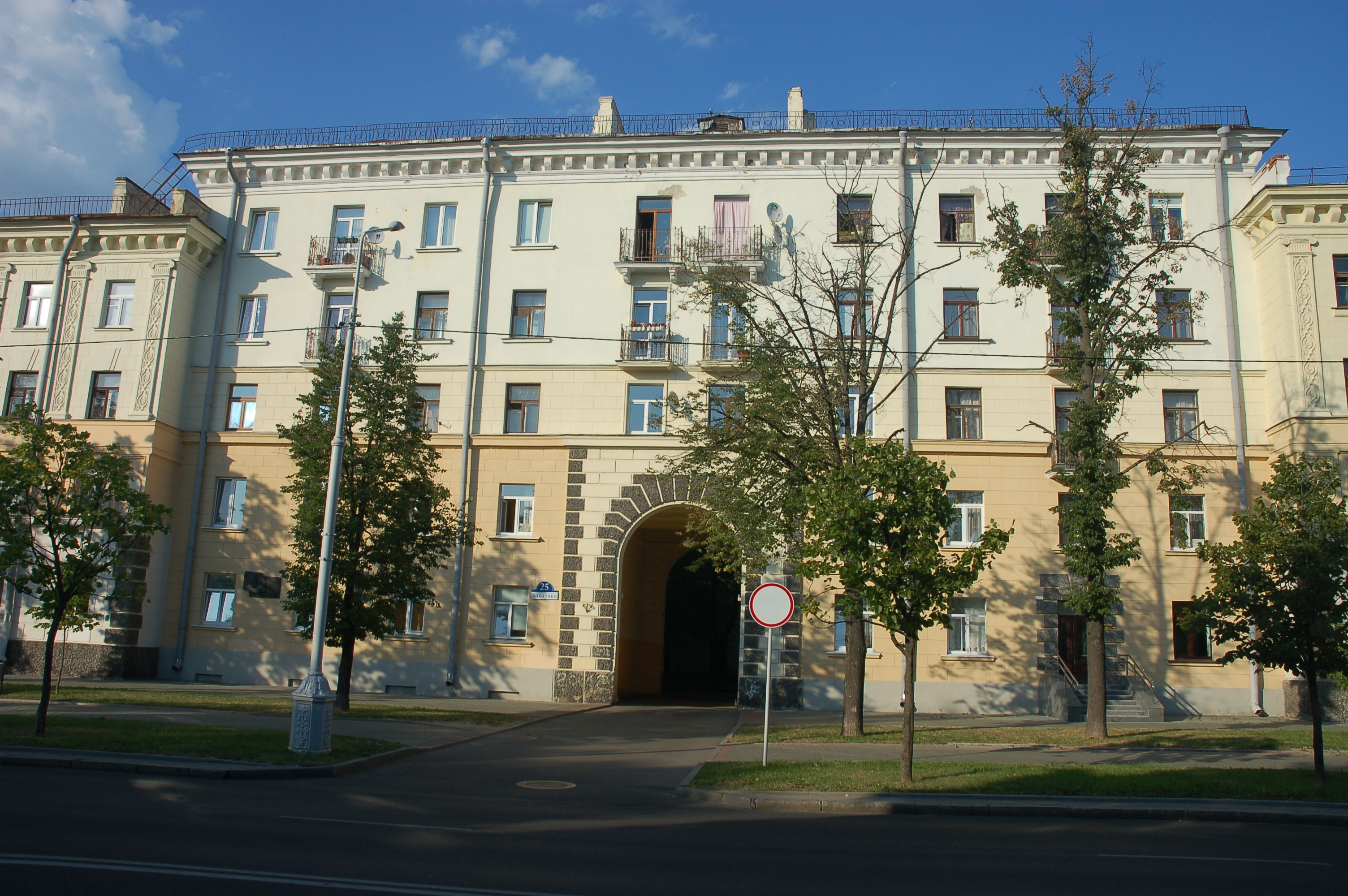 Minsk, 25 Zakharava Street